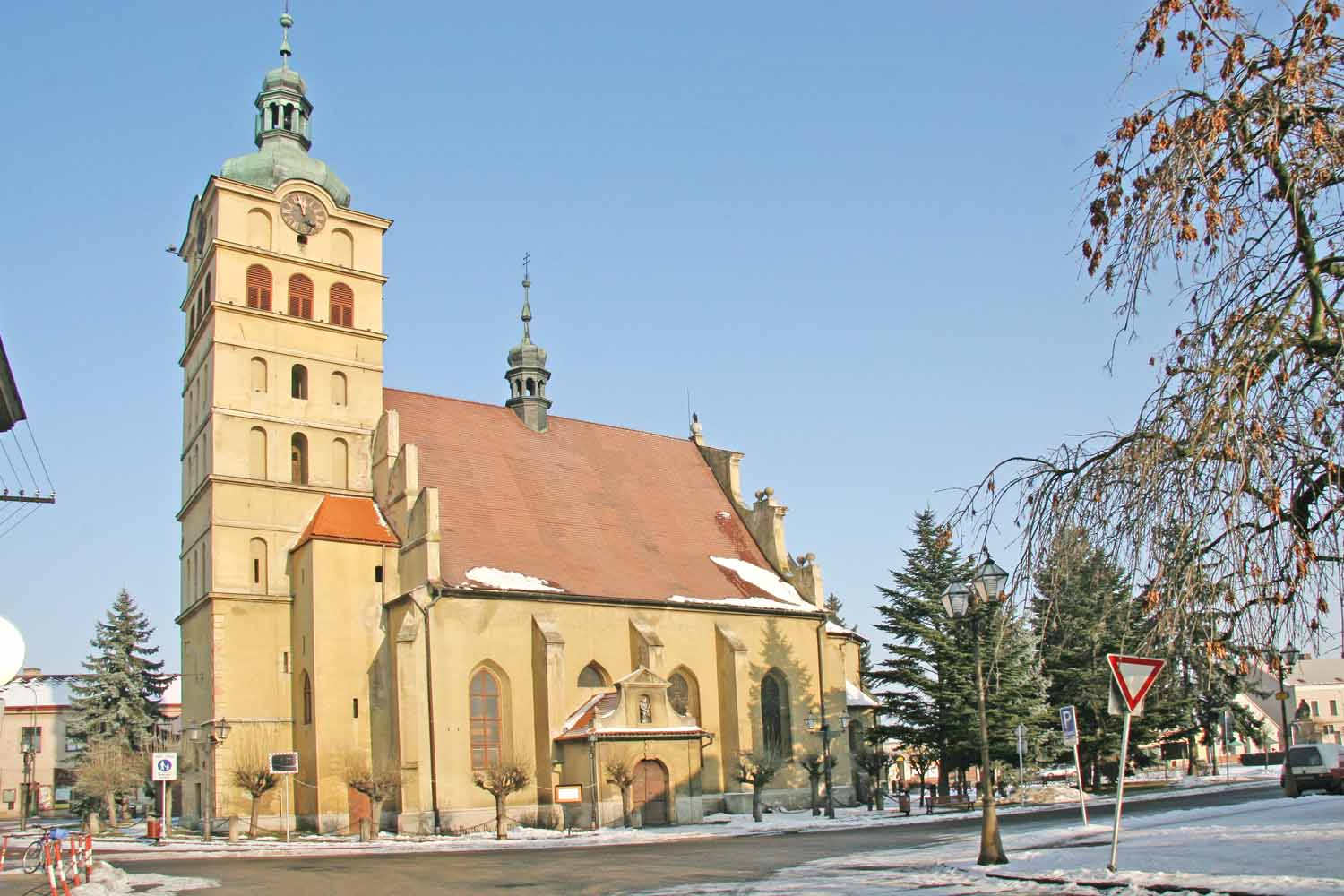 Decanal church of St Ursula from 1536 in Chlumec nad Cidlinou, Czech Republic.